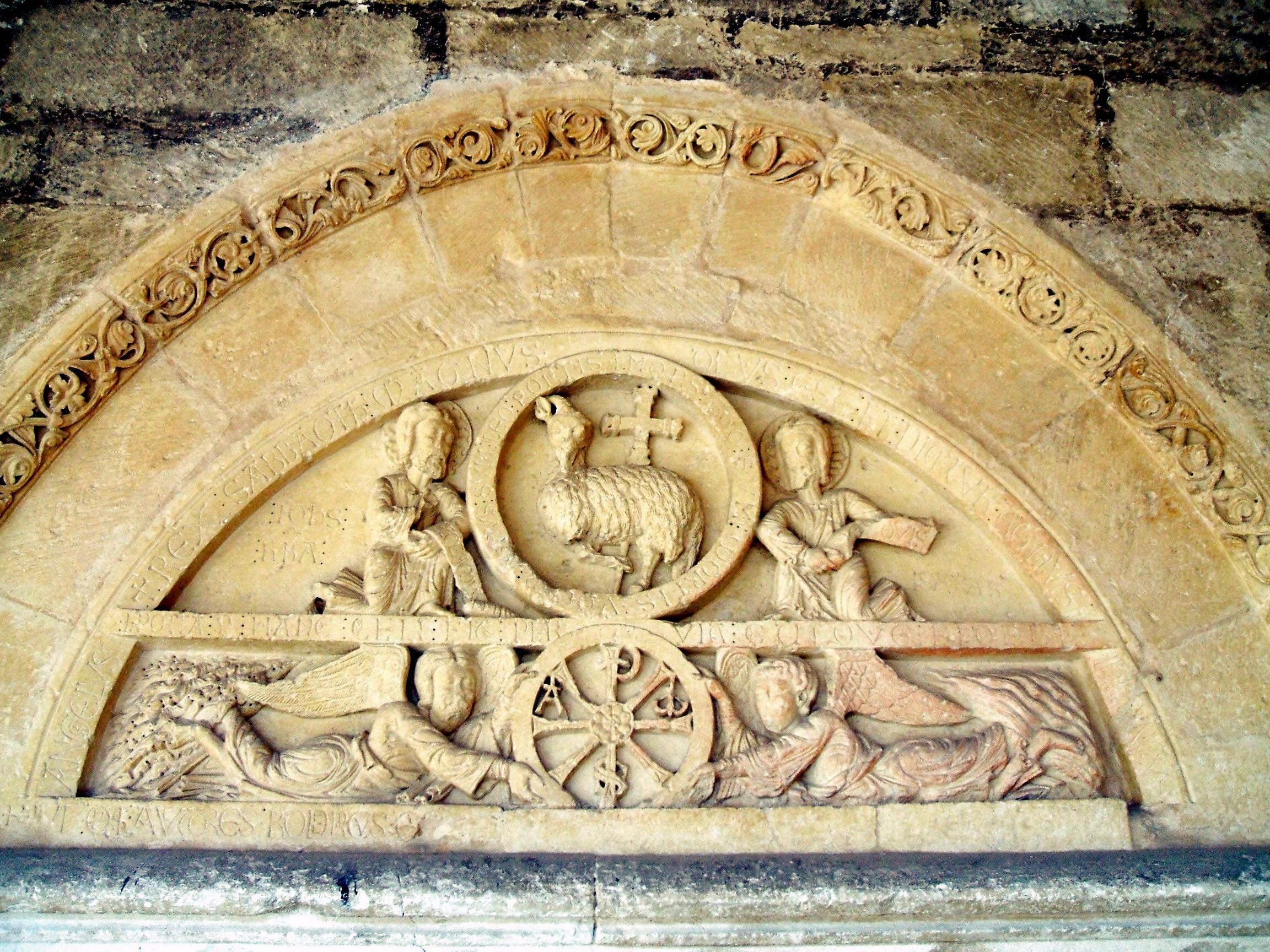 Tímpano románico del siglo XII, con el Cordero místico y el Crismón, empotrado en el pórtico de la Basílica de San Prudencio de Armentia, en Vitoria-Gasteiz (Álava, País Vasco, España)